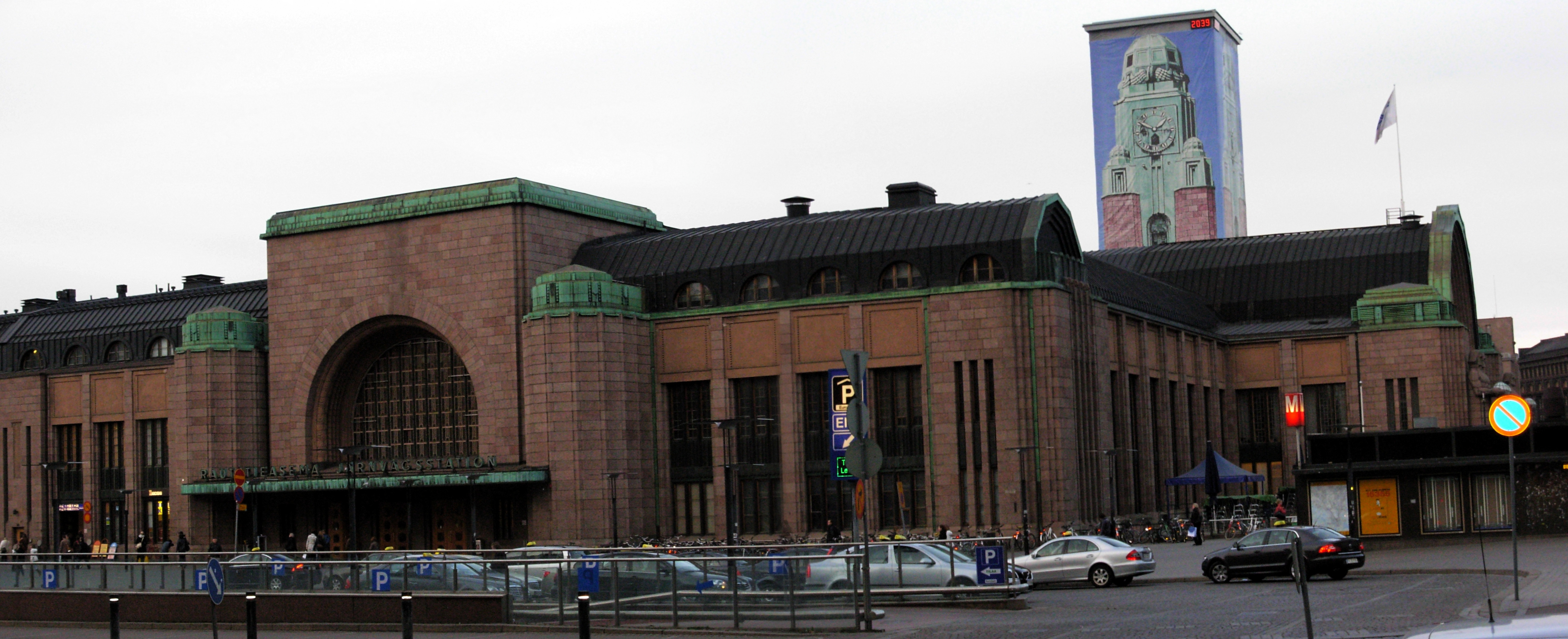 Helsinki Central railway station